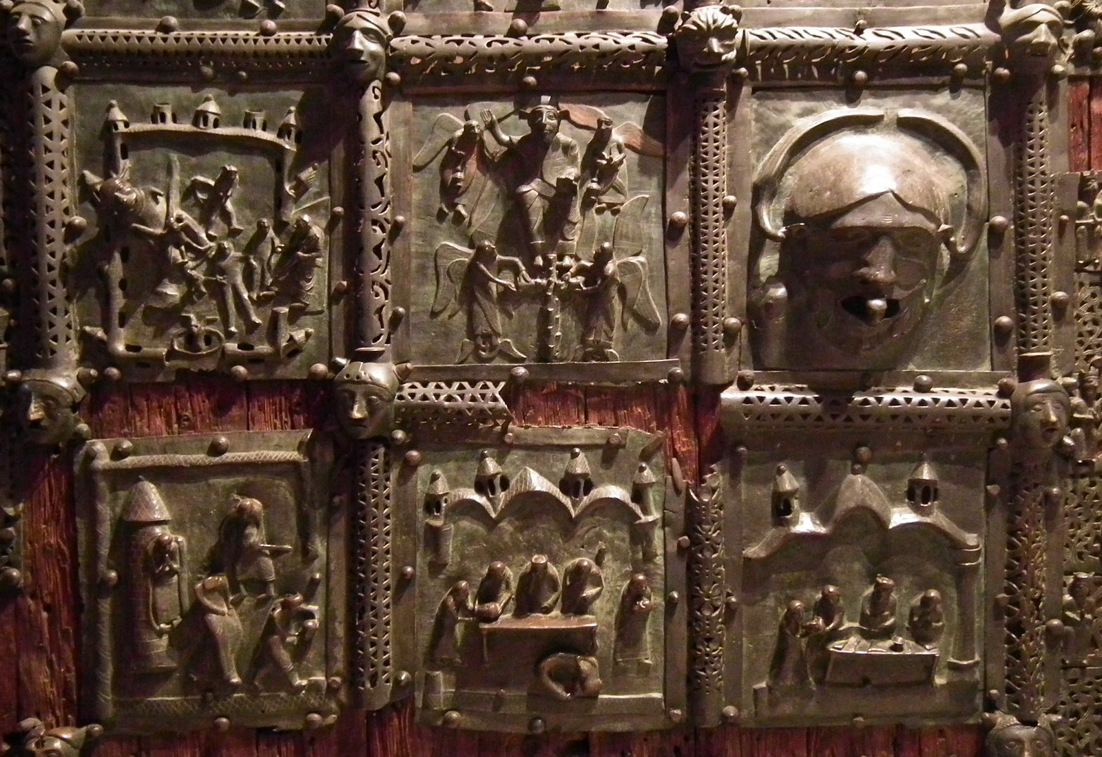 Details on the left panel of the Bronze door. Basilica of San Zeno, Verona Native nameBasilica di San ZenoLocationVerona, Veneto, ItalyCoordinates45° 26′ 33″ N, 10° 58′ 45″ E Established12th/13th centuryWebsite